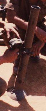 PatMor or short for Patrol Mortar 60mm Mortar with no tripod assembly kit